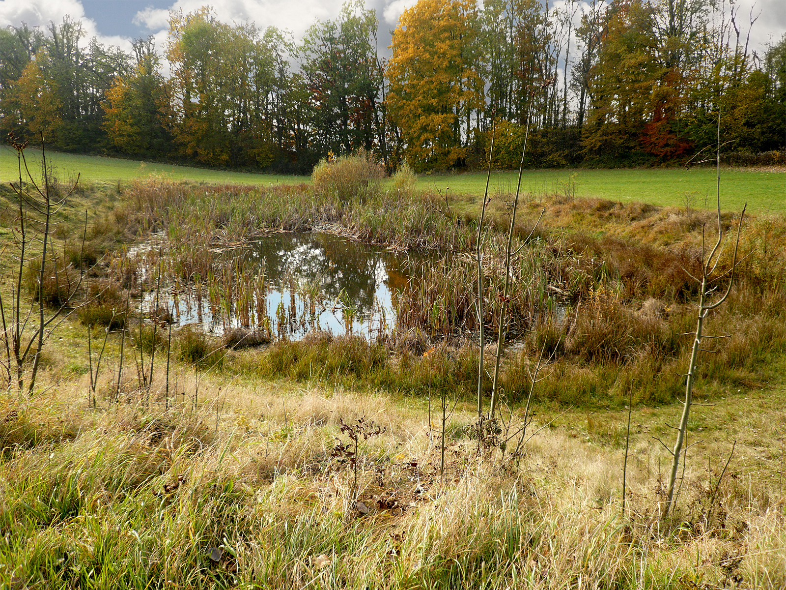 Molach, biotope in a depression, western border of an Alb plateau, called „Erkenbrechtsweiler“. There are 355 Miocene volcanoes (Urach-Kirchheimer Vulkangebiet), Middle Swabian Alb. Surface of a rest of a volcano volcanic pipe, style phreatomagmatic eruption. The biotope and the larger depression developed through the sagging (compaction) of welded tuff. Genuine volcanic rock is impermeable for water.